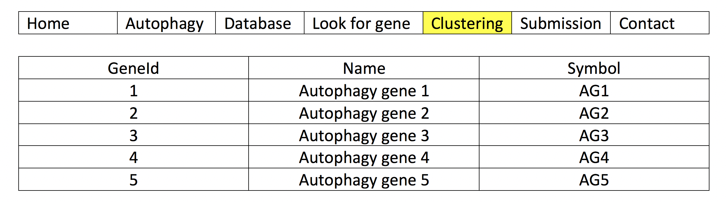 Simplified diagram of use for human autophagy database.